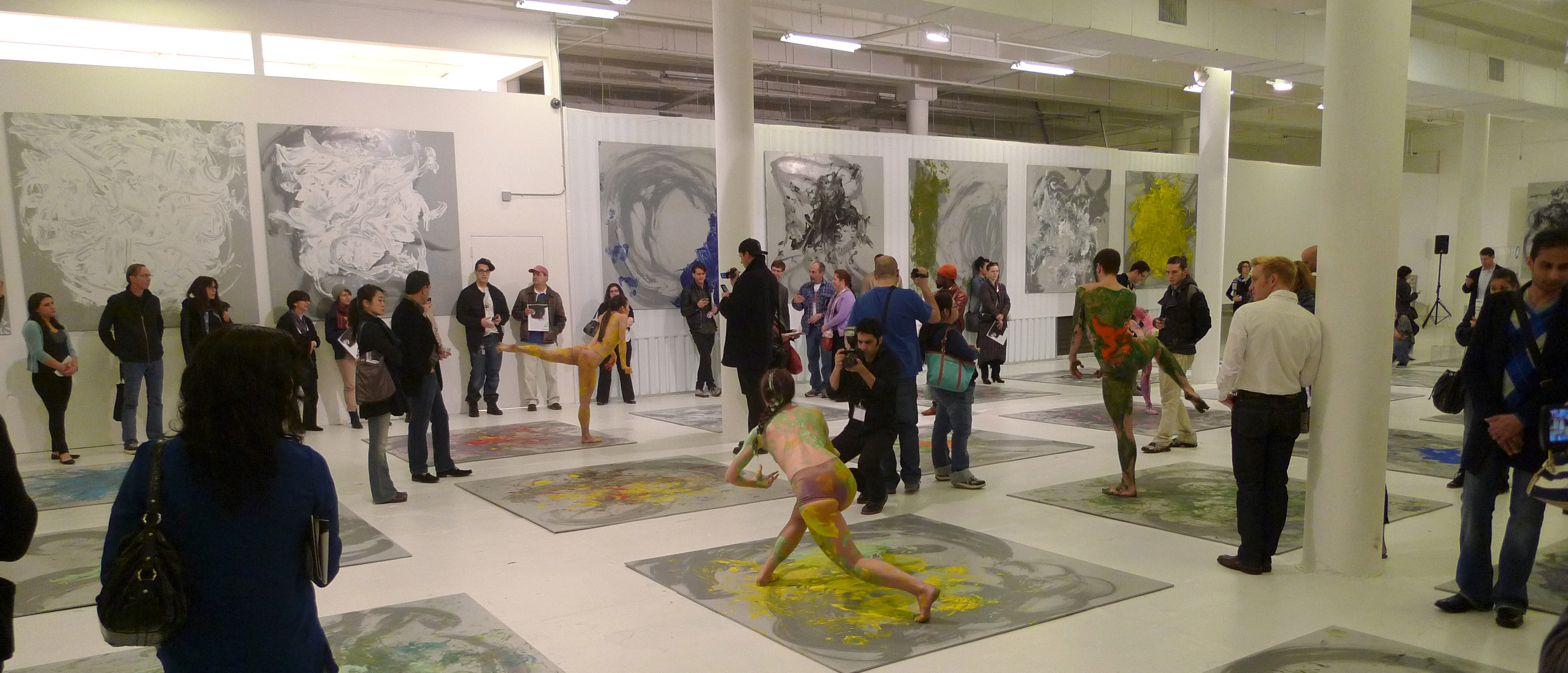 Shen Wei Dance Arts performing at Mana Contemporary in Jersey City, New Jersey on March 11, 2012